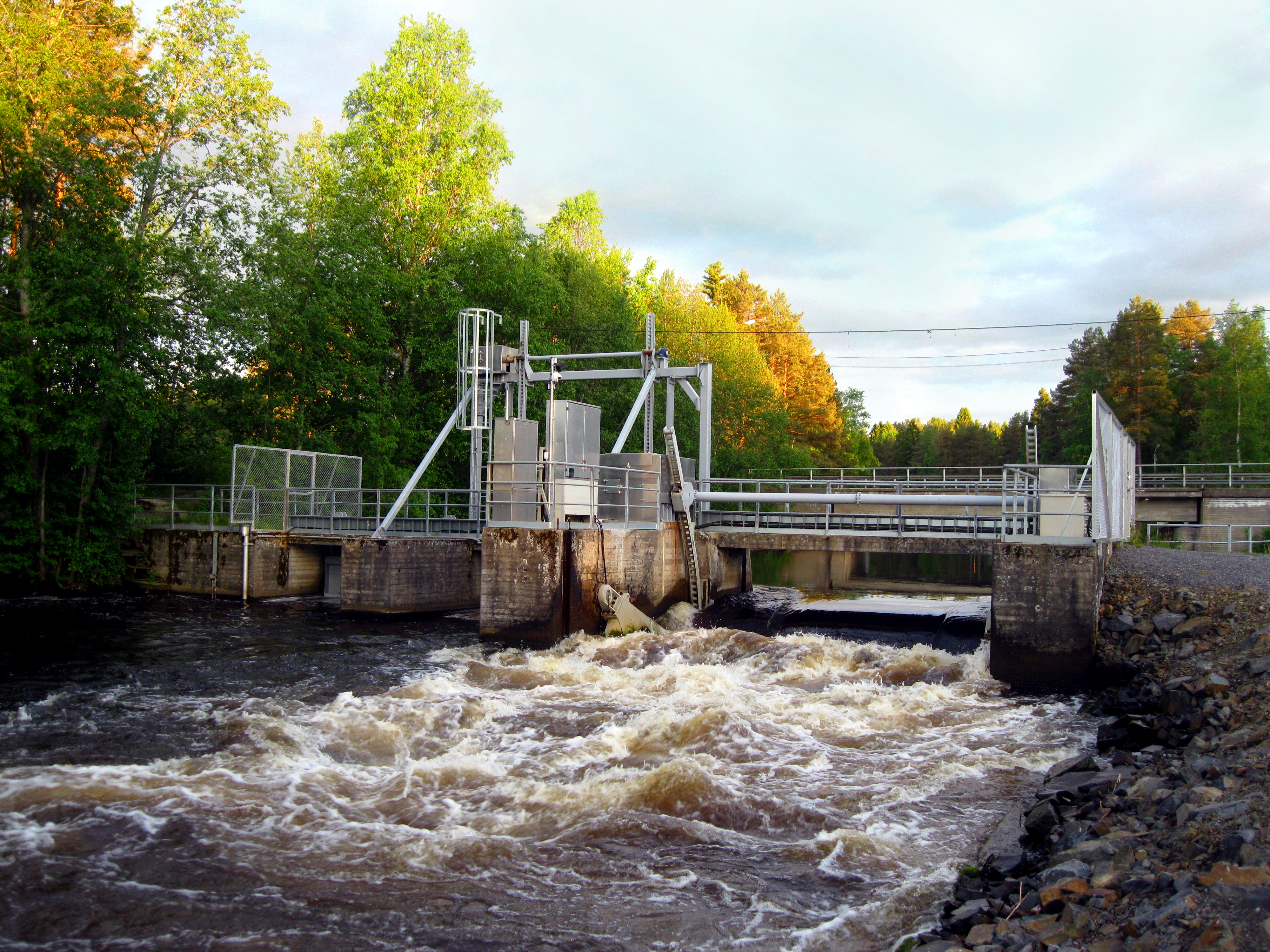 Niskan pato dam in Lappajärvi, Finland.